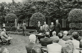 The photo contact sheet, identified as A9732 by the White House Photographic Office (WHPO), is housed at the Gerald R. Ford Presidential Library, a branch of the National Archives and Records Administration (NARA). This file is a 200 dpi photo contact sheet having images from roll of film A9732 of the August 9, 1974 - January 20, 1977 Gerald R. Ford White House Photographic Office Series A0001-A9999 and B0001-B2886 photographs. The date on the photo contact sheet is the date the roll of film was processed, not necessarily the date the photographs were taken. See table below for additional details.